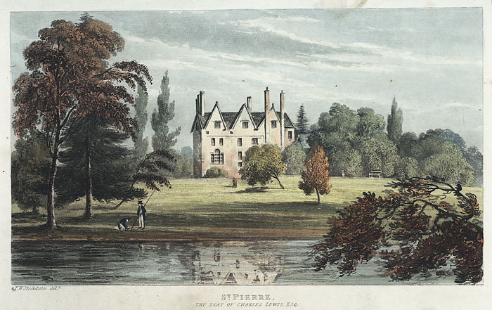 A view of a very large mansion with anglers by the lake in the foreground.